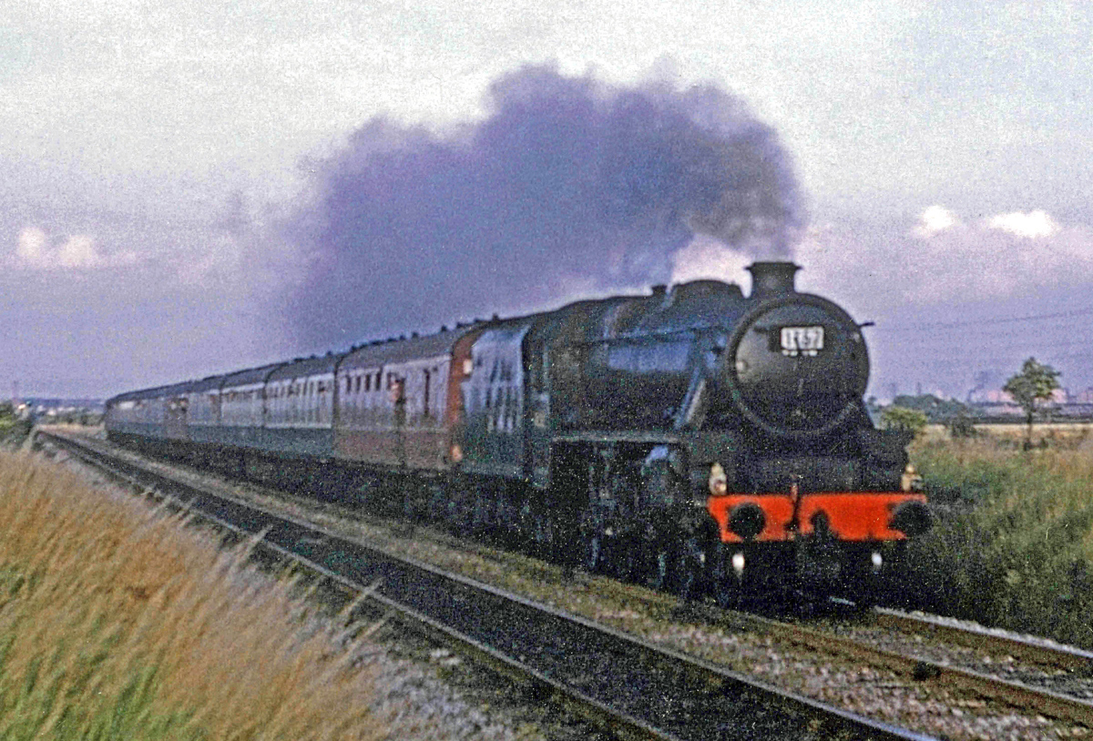 'The Fifteen Guinea Special' - the last British Railways steam hauled train en route from Manchester Victoria to Liverpool Lime Street hauled by LMS 5MT 4-6-0 45110.